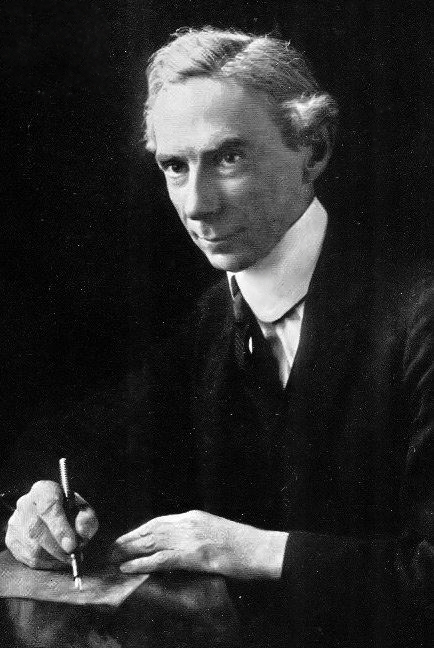 A photograph of Bertrand Russell in 1916.